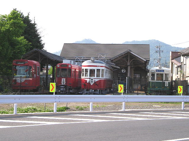 Mino Station on Meitetsu Minomachi Line